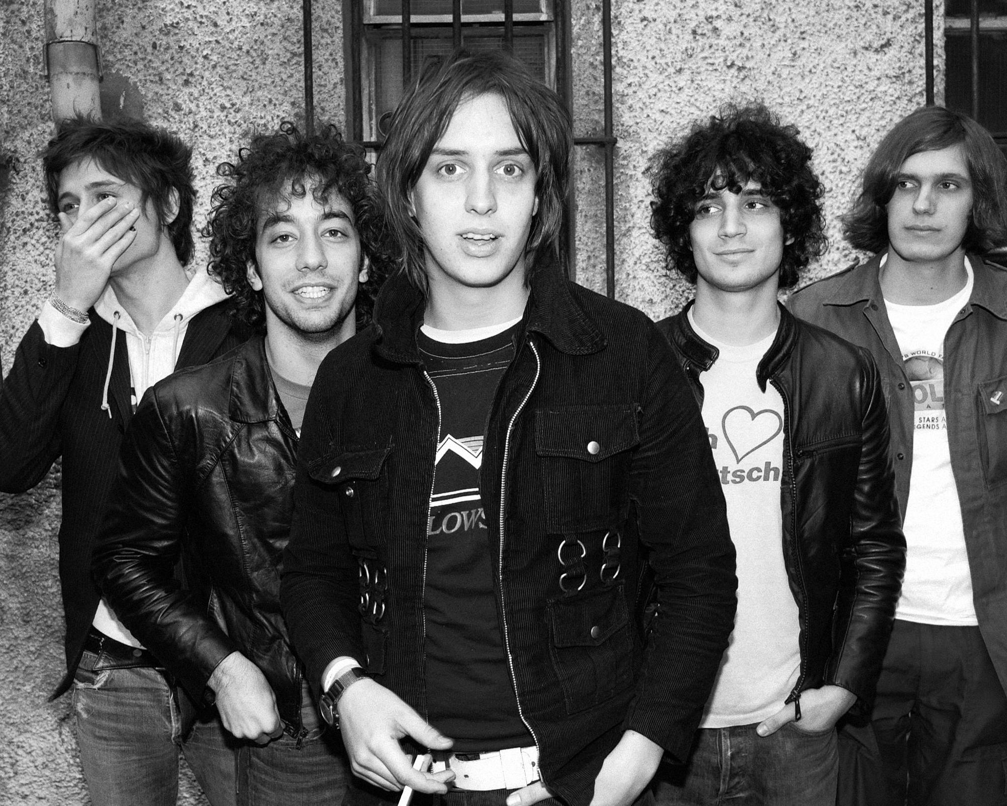 American rock band The Strokes, photographed by Roger Woolman.